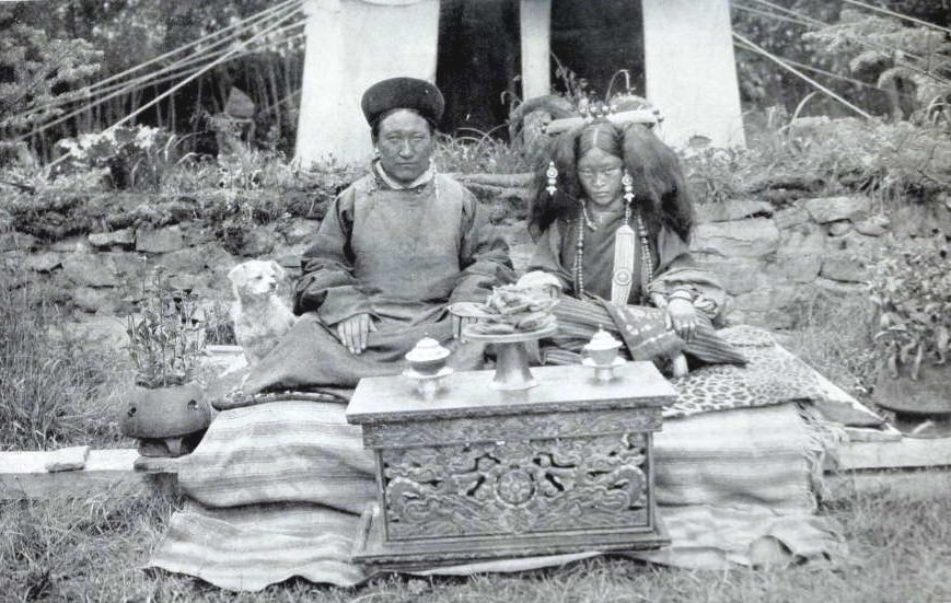 The Dzongpen of Kharta and his Wife. Photograph page 106 of Howard-Bury, C. K. (1922). Mount Everest the Reconnaissance, 1921 (1 ed.). New York, Longman & Green